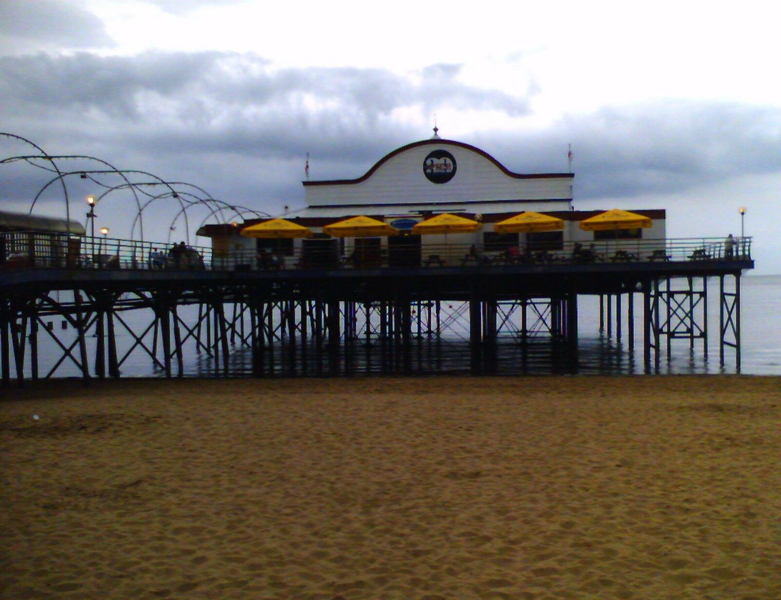 Cleethorpes Pier. Photo by E Asterion u talking to me?